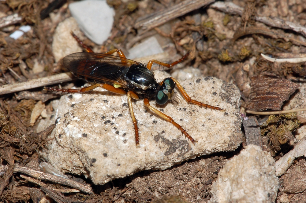 Saropogon leucocephalus, female, St. Guilhem le Desert, Languedoc-Roussillon, France